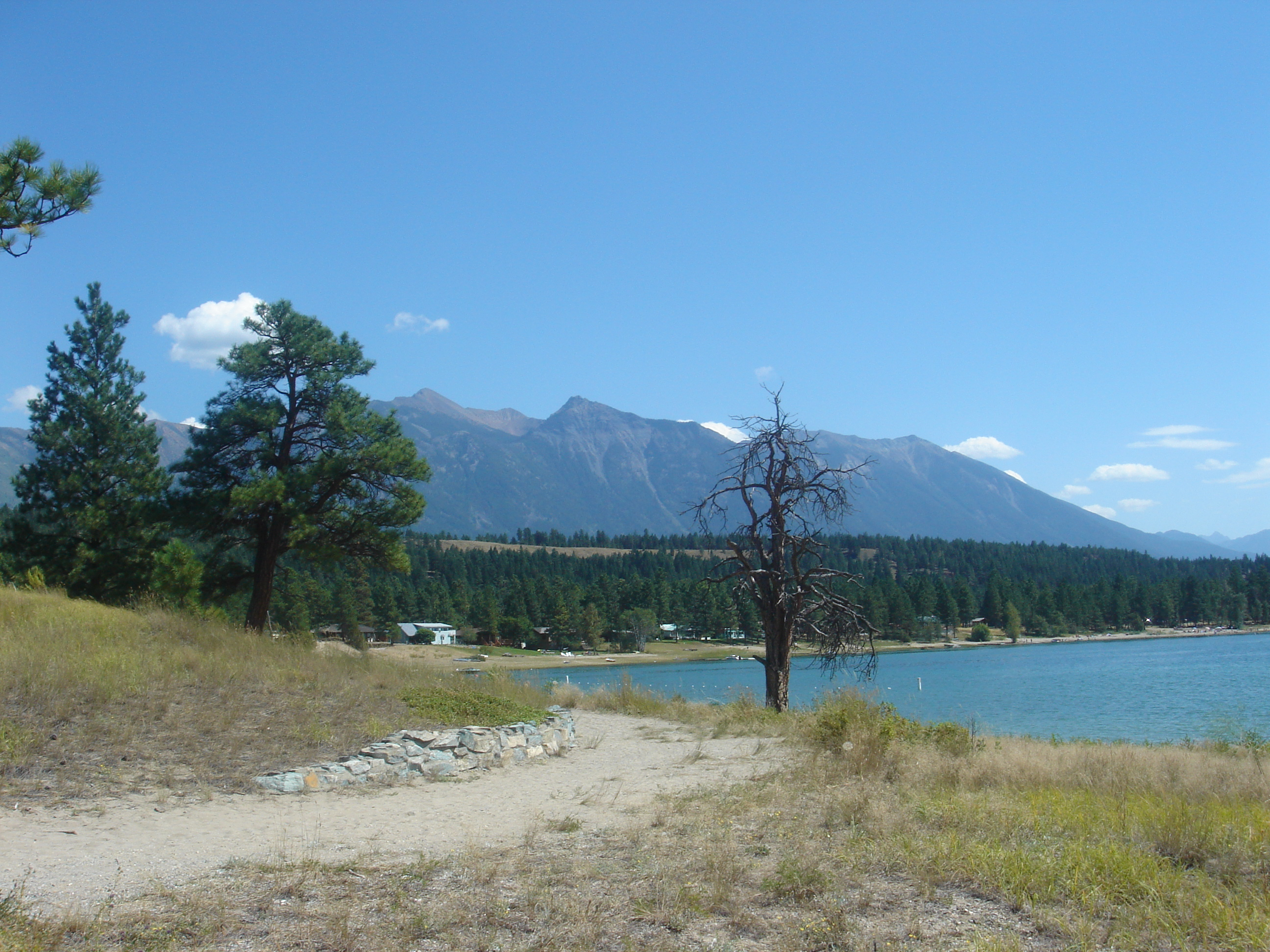 Wasa Lake, British Columbia, August 9, 2005